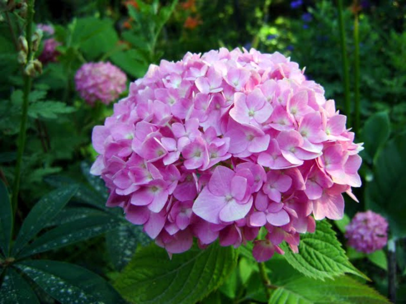 Mani Nair